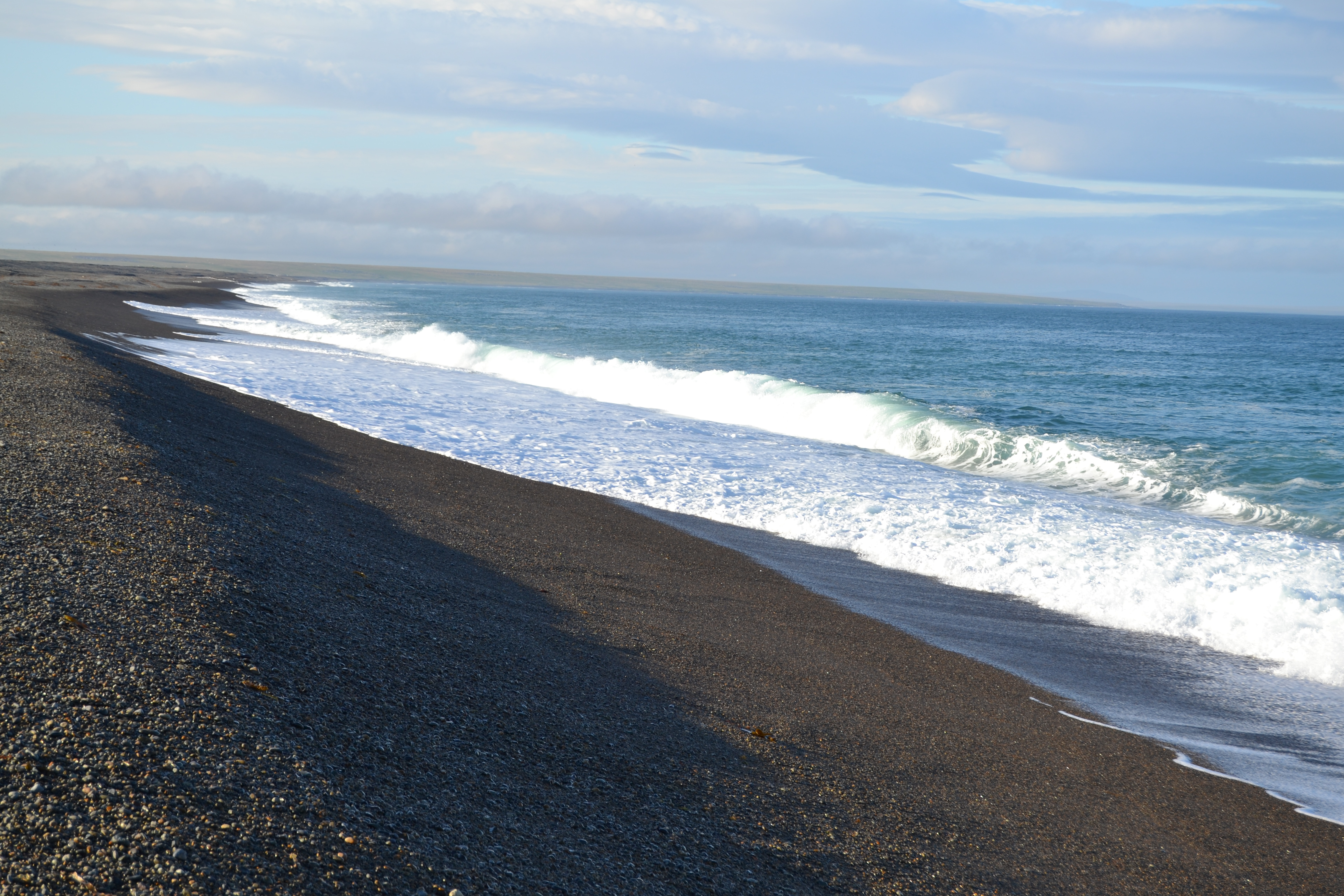 Waves coming ashore on the gravel west beach of Gambell, Alaska, facing south.